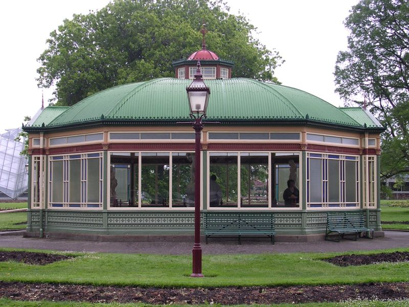 Statuary Pavilion at Ballarat Botanic Gardens. Conservatory is in the background.